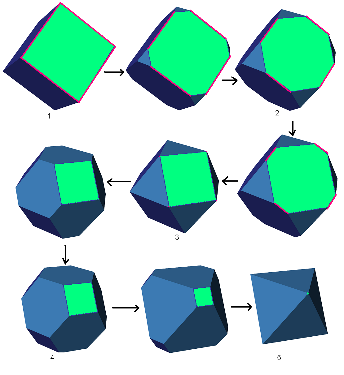 Truncation sequence from a cube to its dual octahedron.